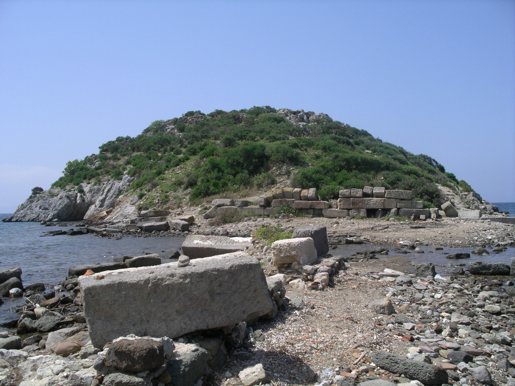 Myndos' Rabbit Island in the Aegean, connected to the mainland by sunken city wall.